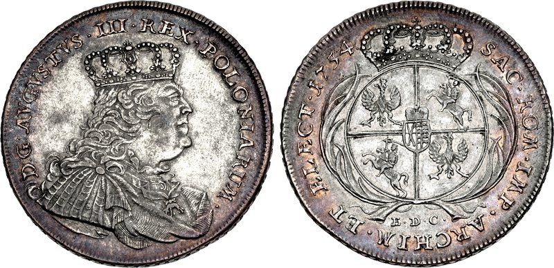 POLAND, Monarchs. August III Sas (the Saxon). 1734-1763. AR Bancotaler (42mm, 28.99 g, 12h). Leipzig mint. Dated 1754. D : G : AVGVSTVS • III • REX • POLONIARUM •, crowned and draped bust right / SAC • ROM • IMP • ARCHIM • ET ELECT • 1754, crowned coat of arms. Kopicki 2134; Gumowski 2181; Davenport 1617. Good VF, lightly toned.